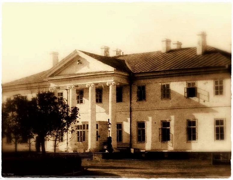 Winter Palace in Bila Tserkva.